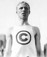 Jim Lightbody Chicago Daily News negatives collection, SDN-002622. Courtesy of the Chicago Historical Society.